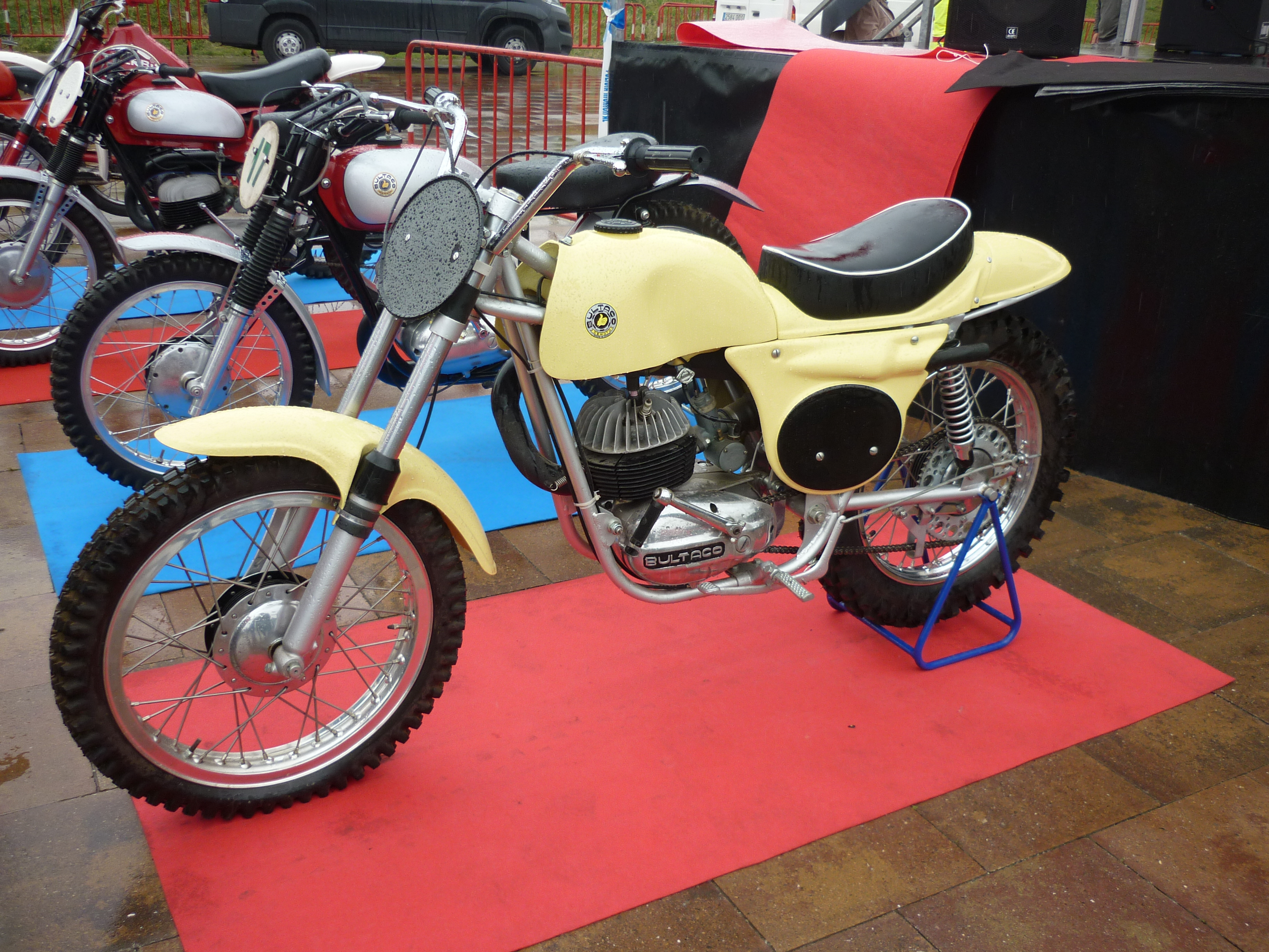 In yellow: Bultaco Métisse 250, 1964